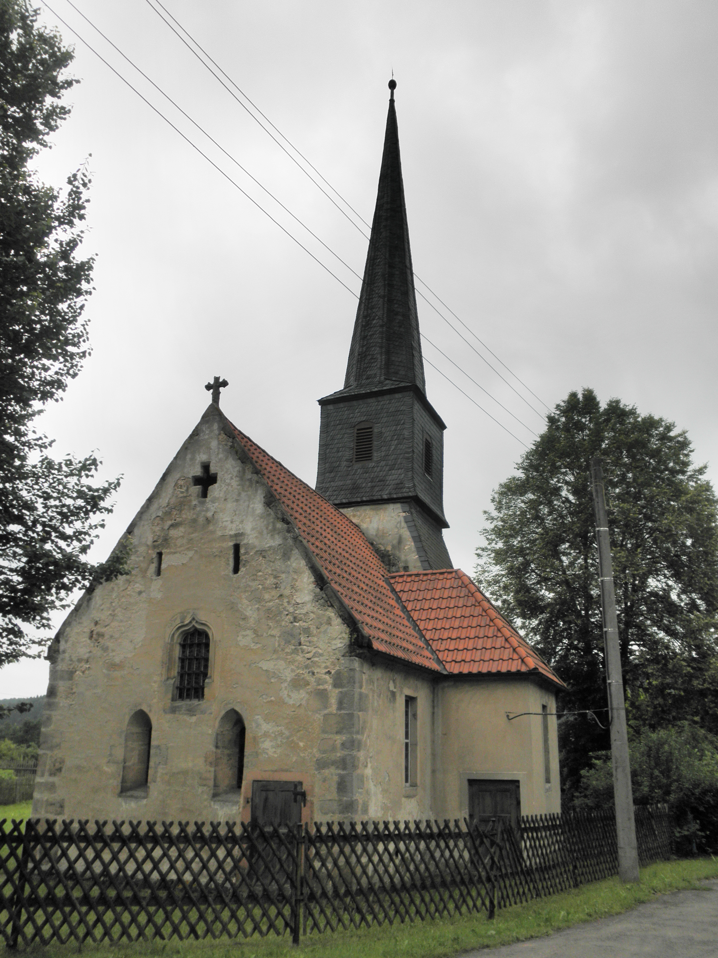 Church in Schweinitz (Pößneck) in Thuringia